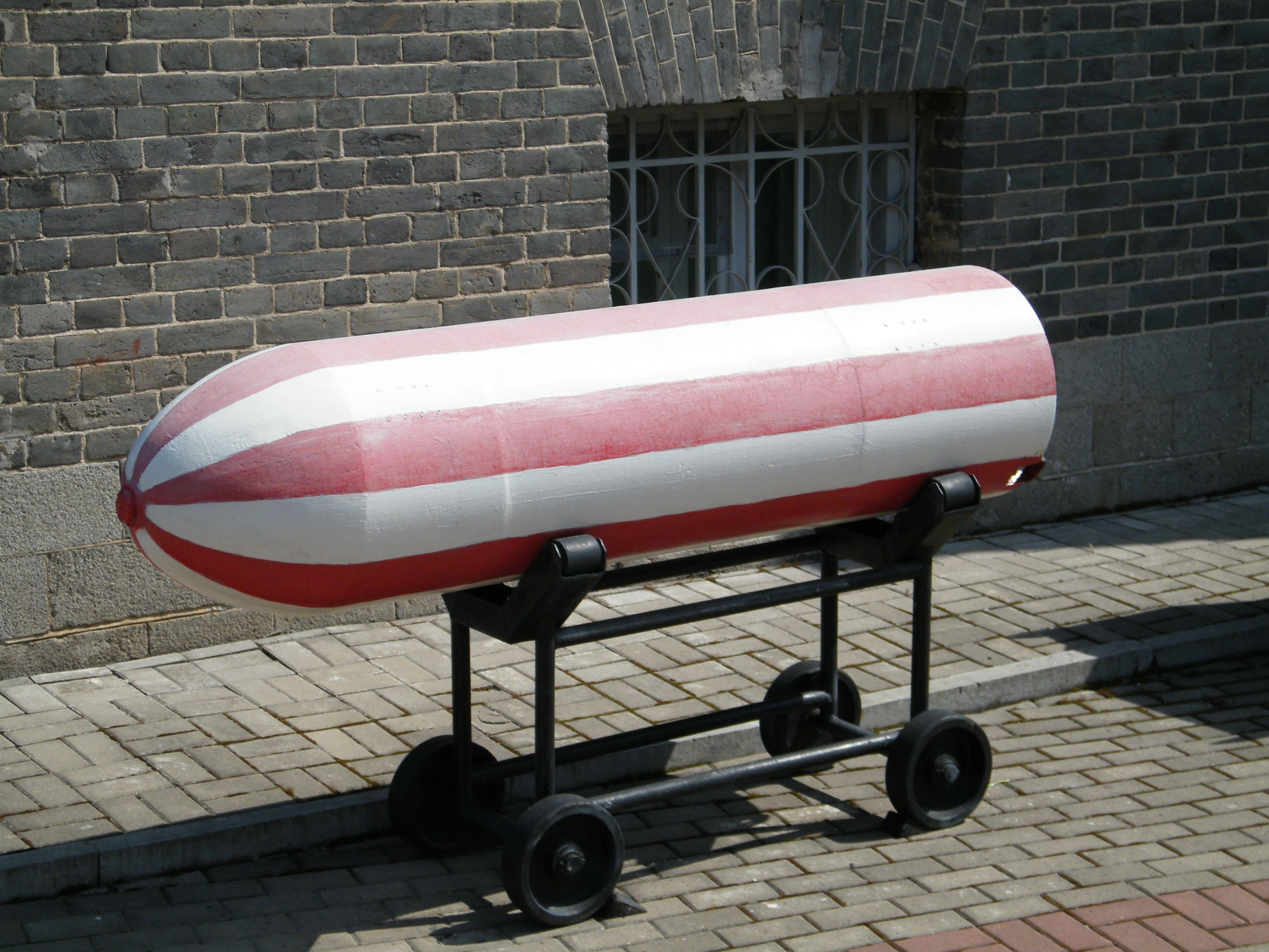 Донная морская мина в Хабаровске